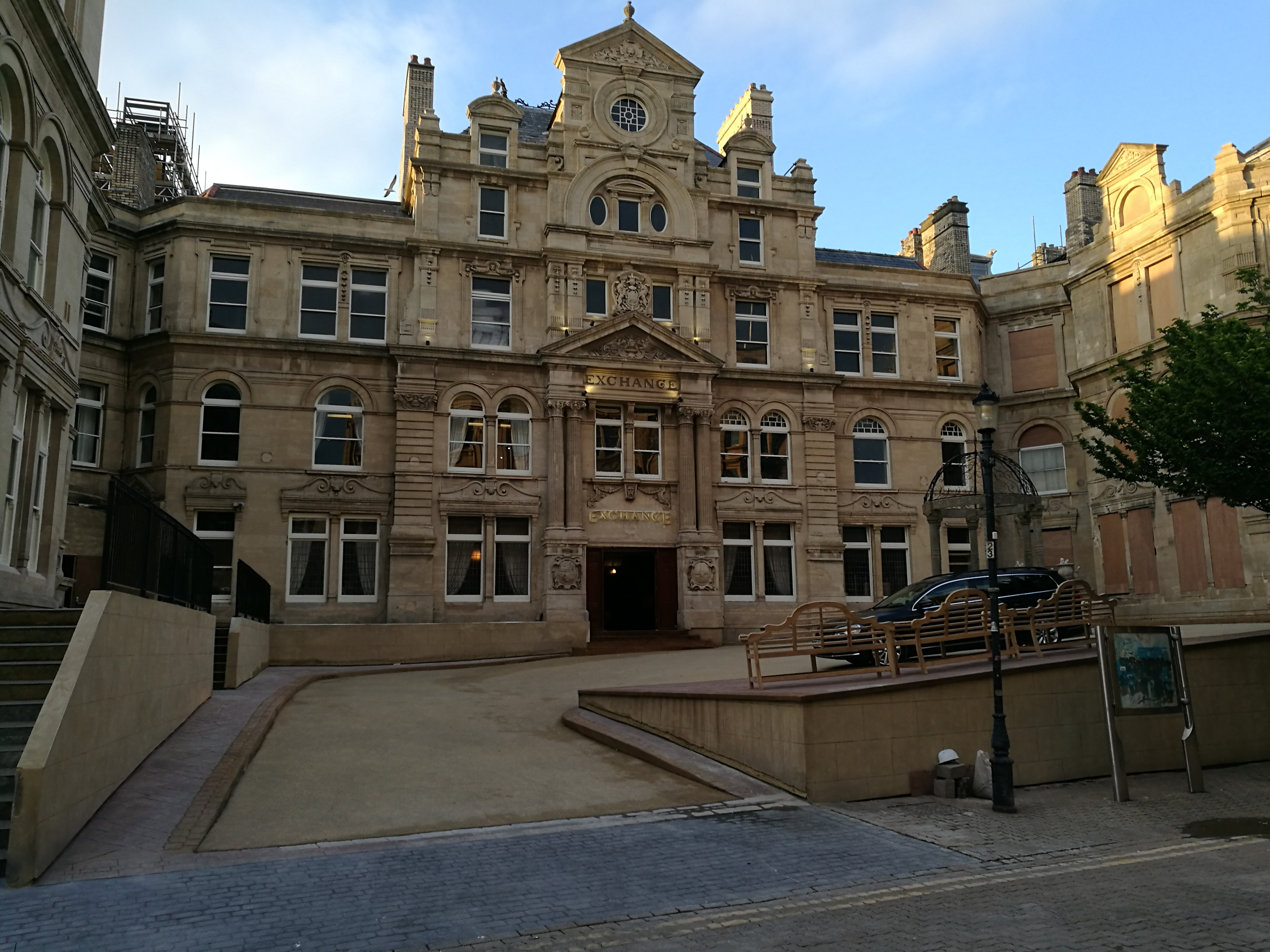 The Exchange, Mount Stuart Square, in the former Coal Exchange building.